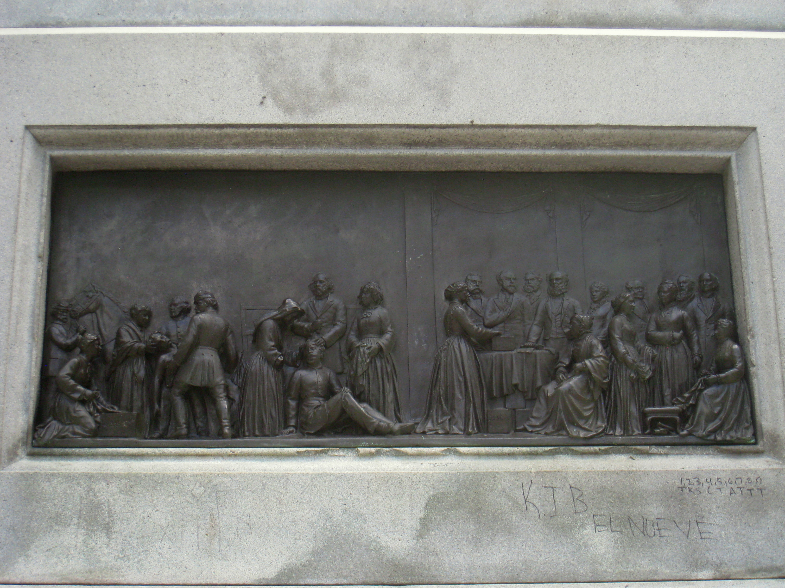 Plaque on the Soldiers and Sailors Monument, Boston Commons, Boston, Massachusetts, USA.